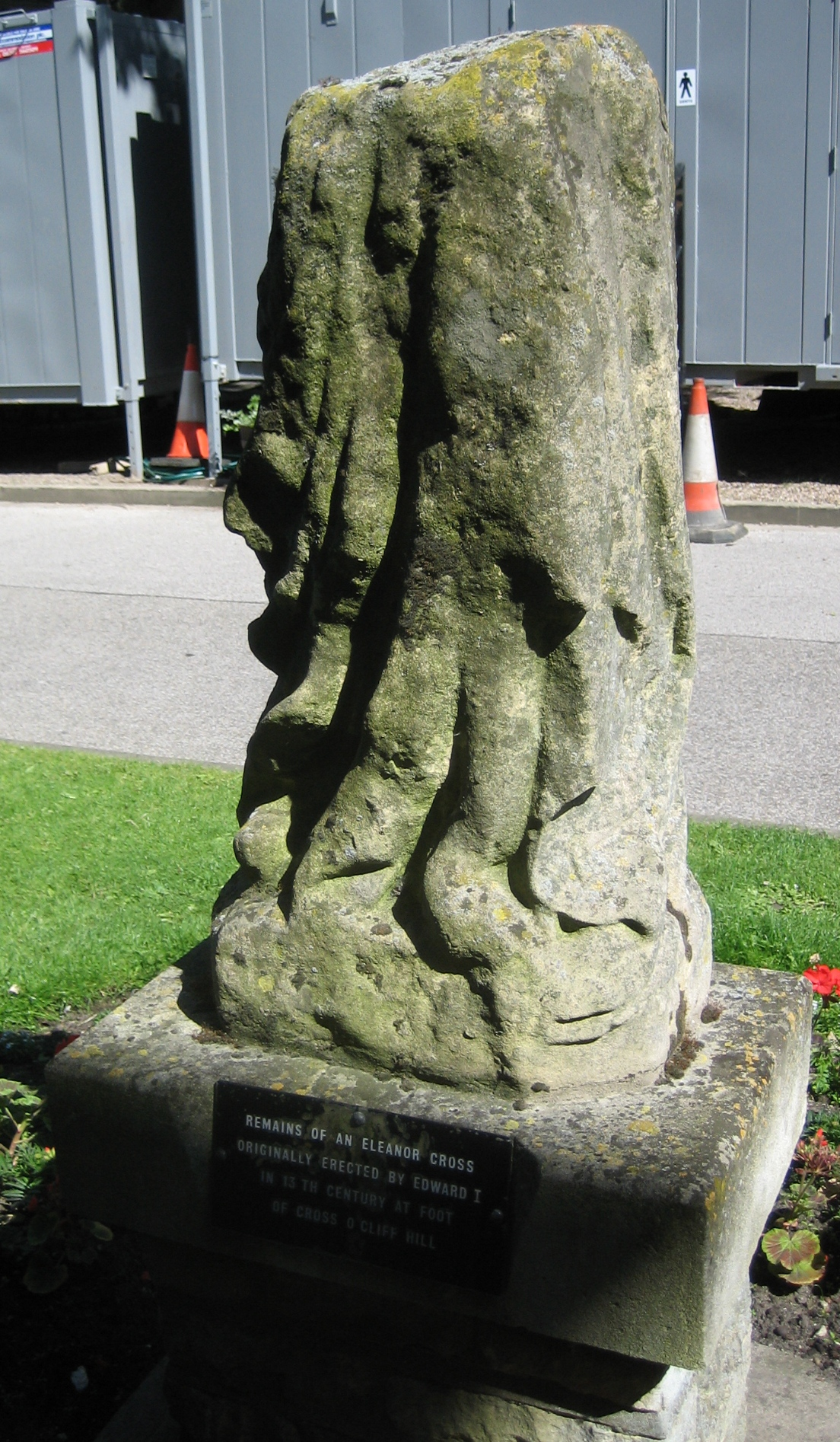 thumb|right|50px Eleanor cross, Lincoln Castle See also Image:Lincoln 128.jpg.